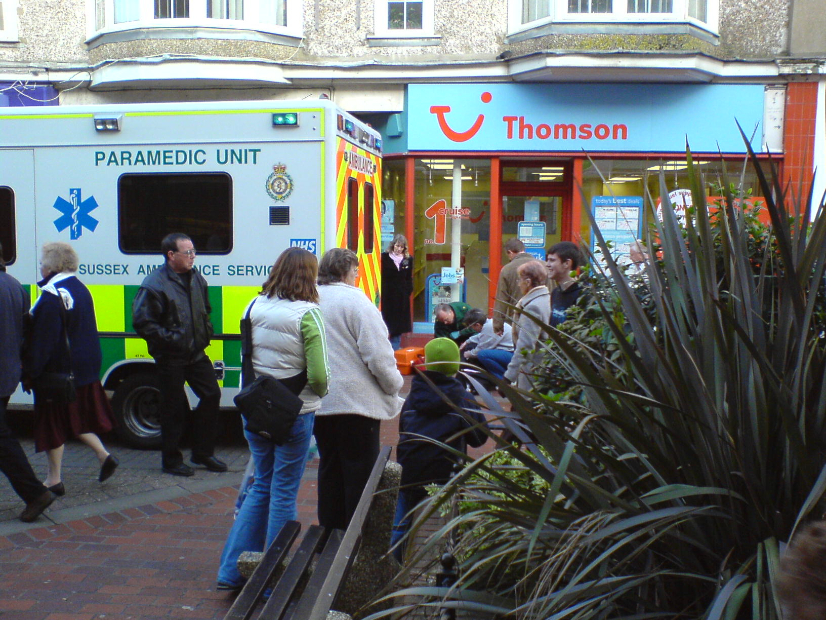 An example of a photo taken from the Sony Ericsson K750i as paramedics rush to the scene of an accident in Bognor Regis. Bystanders gasp in horror as they witness the severity of the injuries.